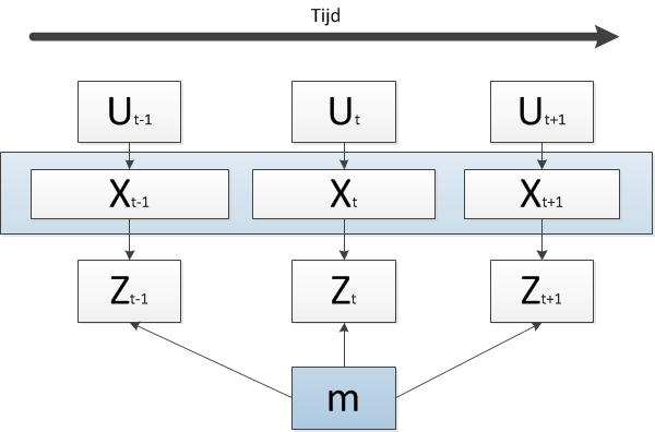 Full SLAM scheme